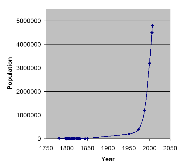 Chart of population of Luanda